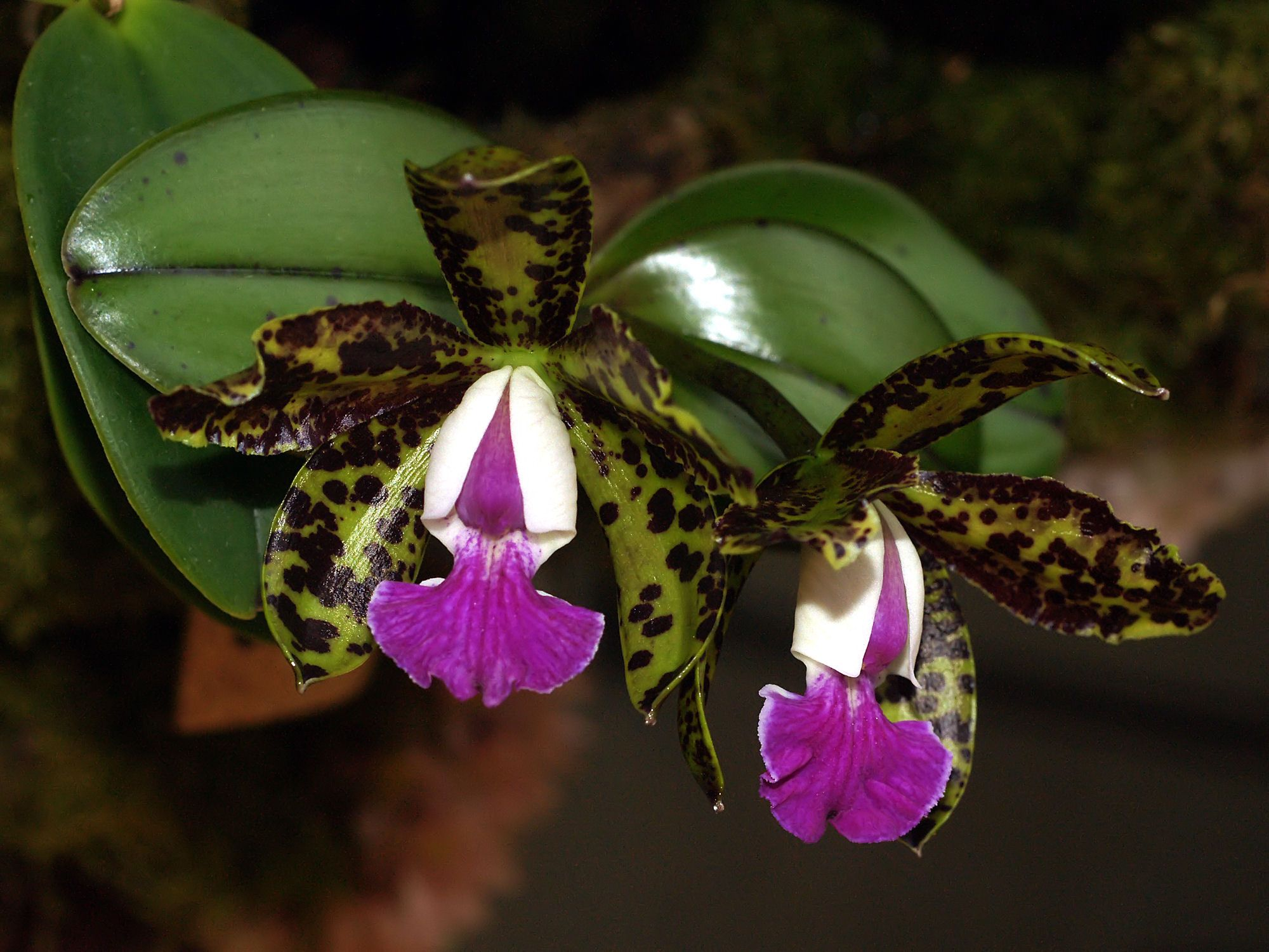 Cattleya aclandiae